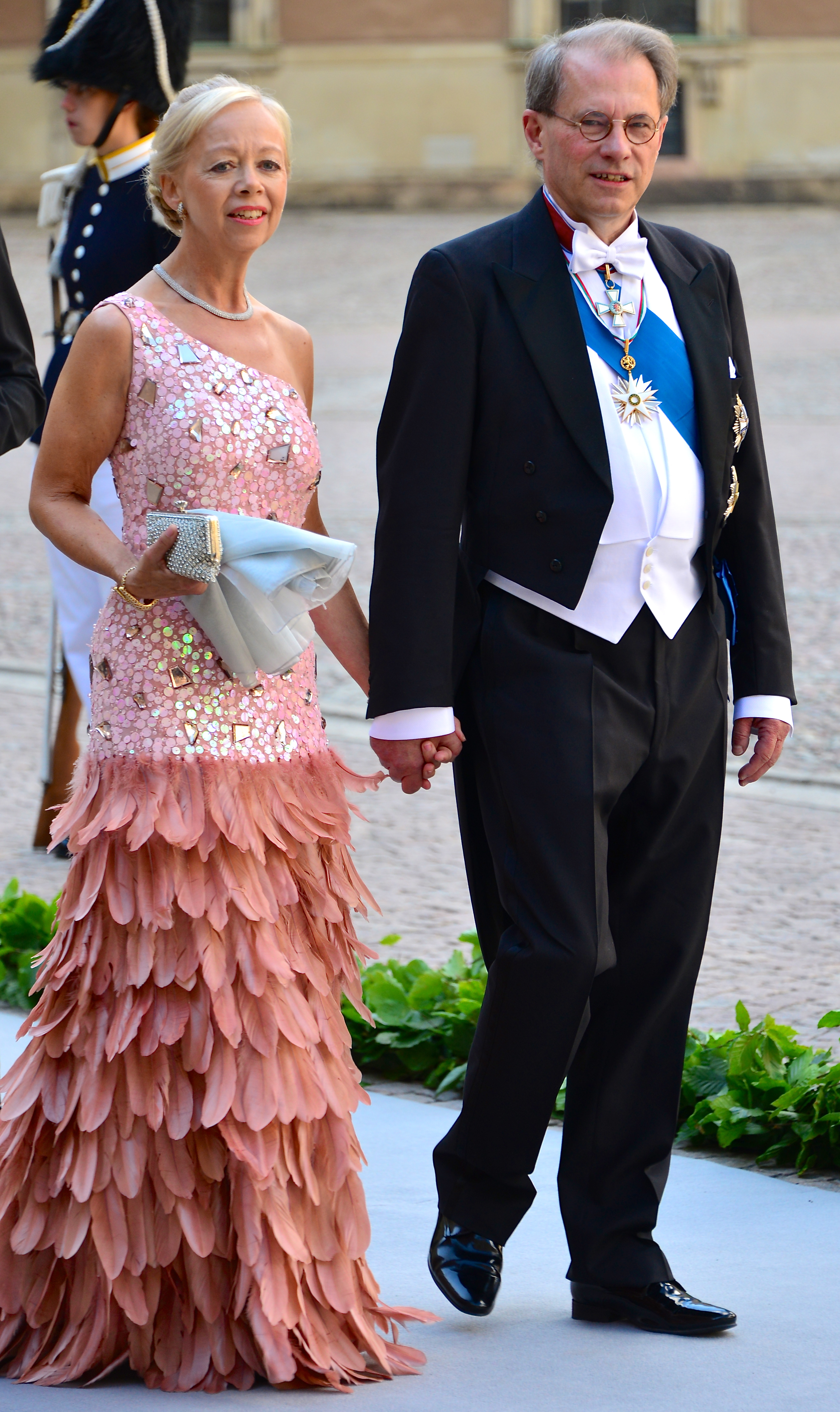 Speaker Per Westerberg and his wife Ylwa Westerberg on the way to the castle church at the Royal Palace in Stockholm before the wedding between Princess Madeleine and Christopher O'Neill June 8, 2013.